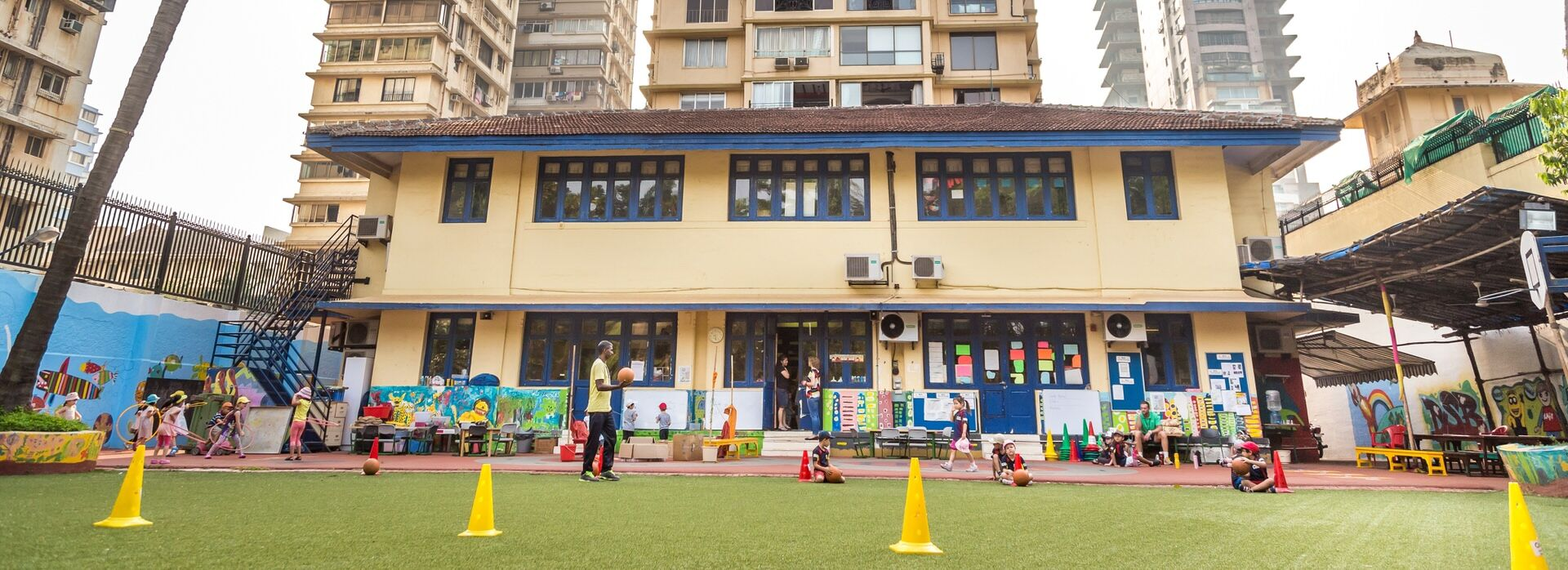 Primary Campus